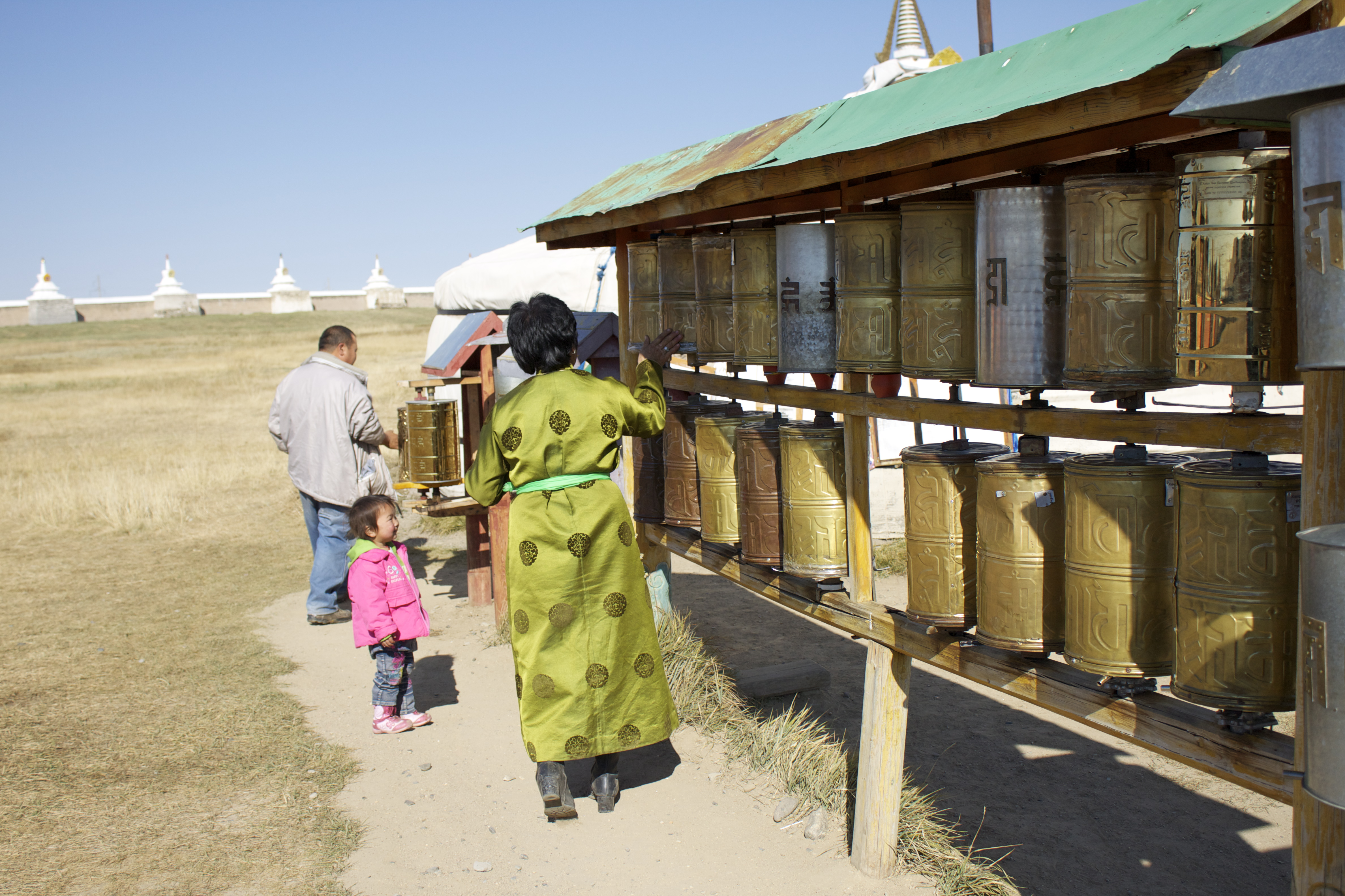 Prayer wheels